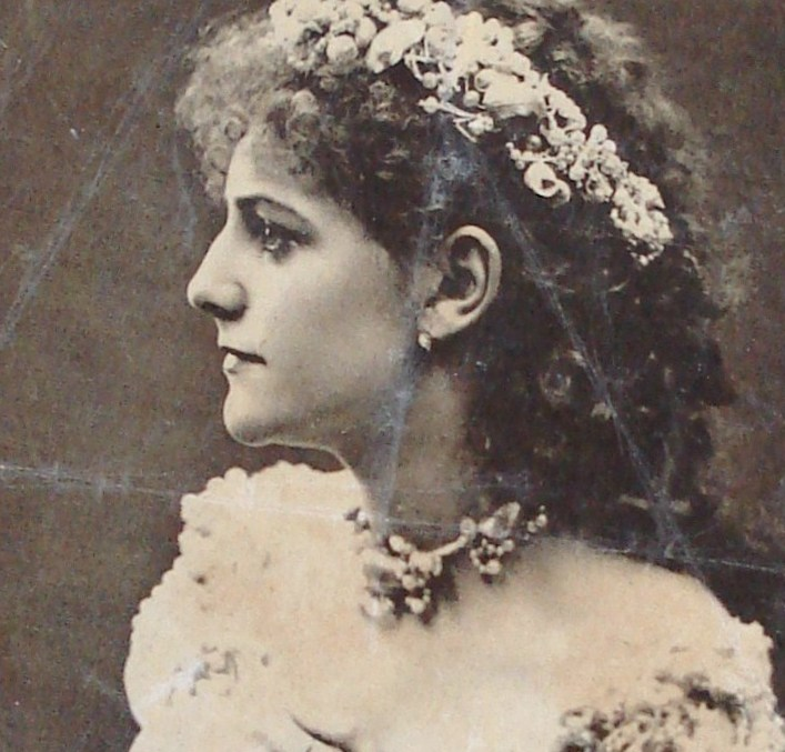 Elizabeth Maria Molteno (24 September 1852 – 25 August 1927), a prominent early advocate of civil and women's rights in South Africa.